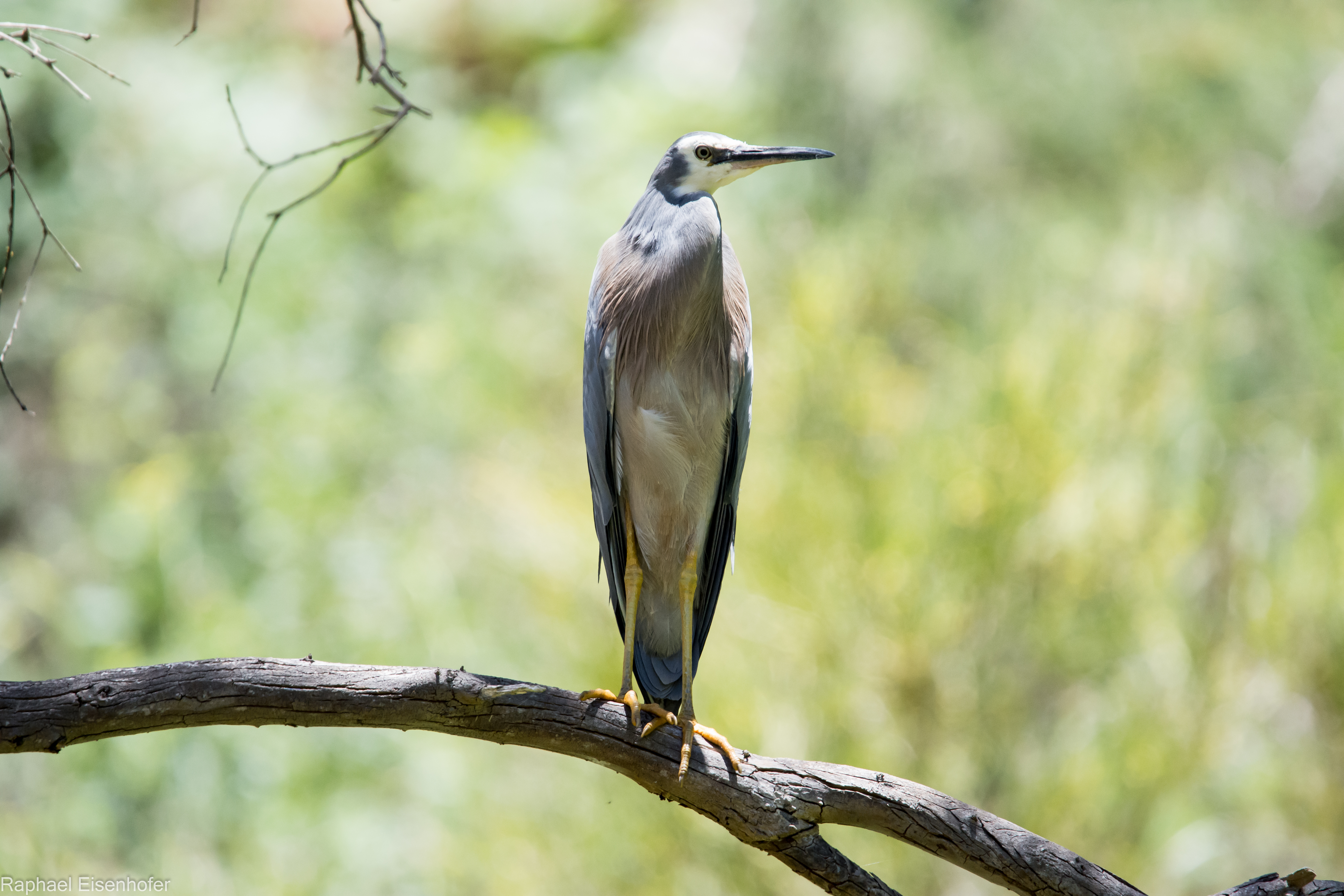 White Faced Heron in Morialta Conservation Park. Above Third Falls.